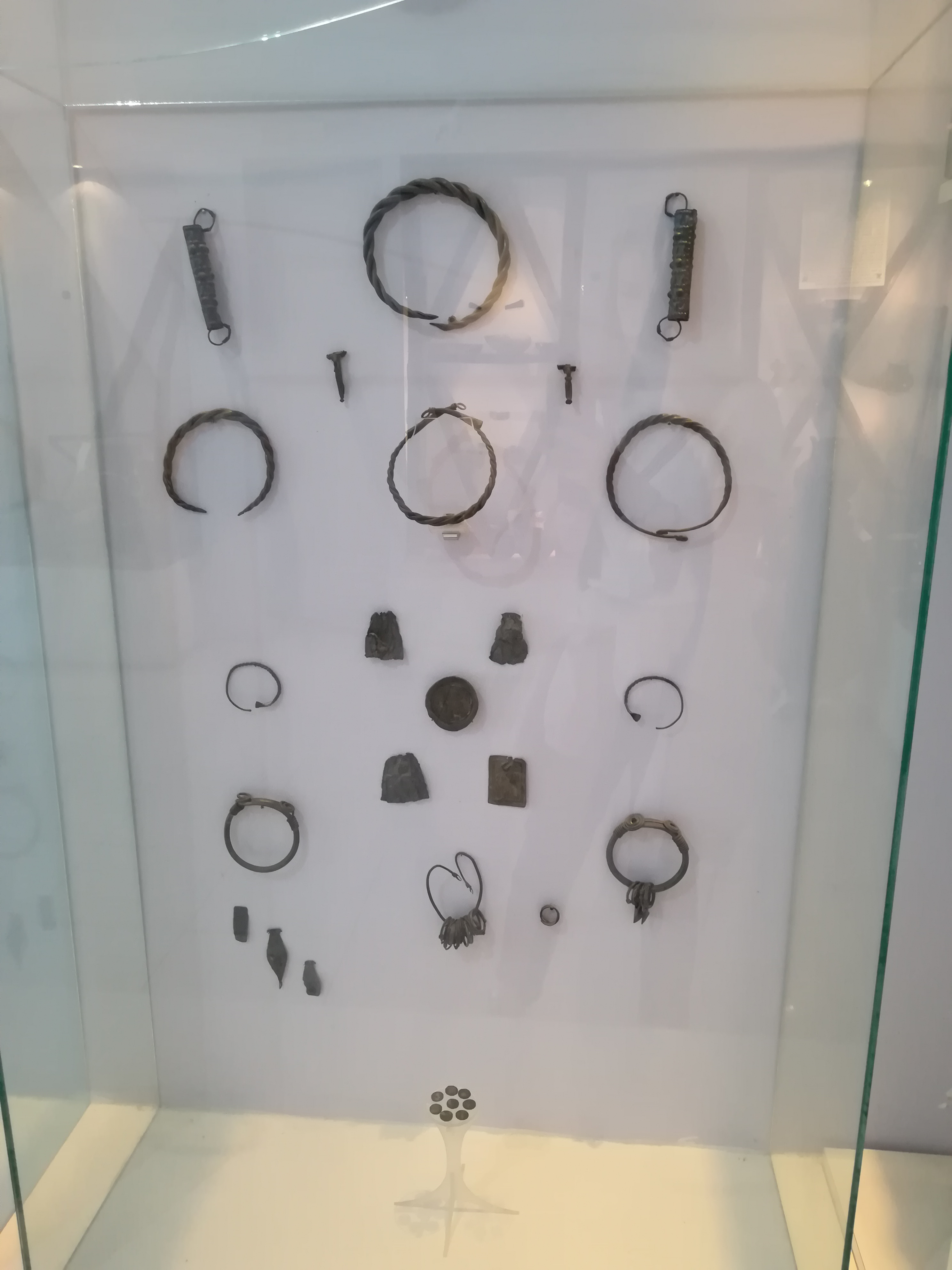 Jewelry from the era of Ancient Rome, a permanent exhibition od the National museum in Pozarevac.